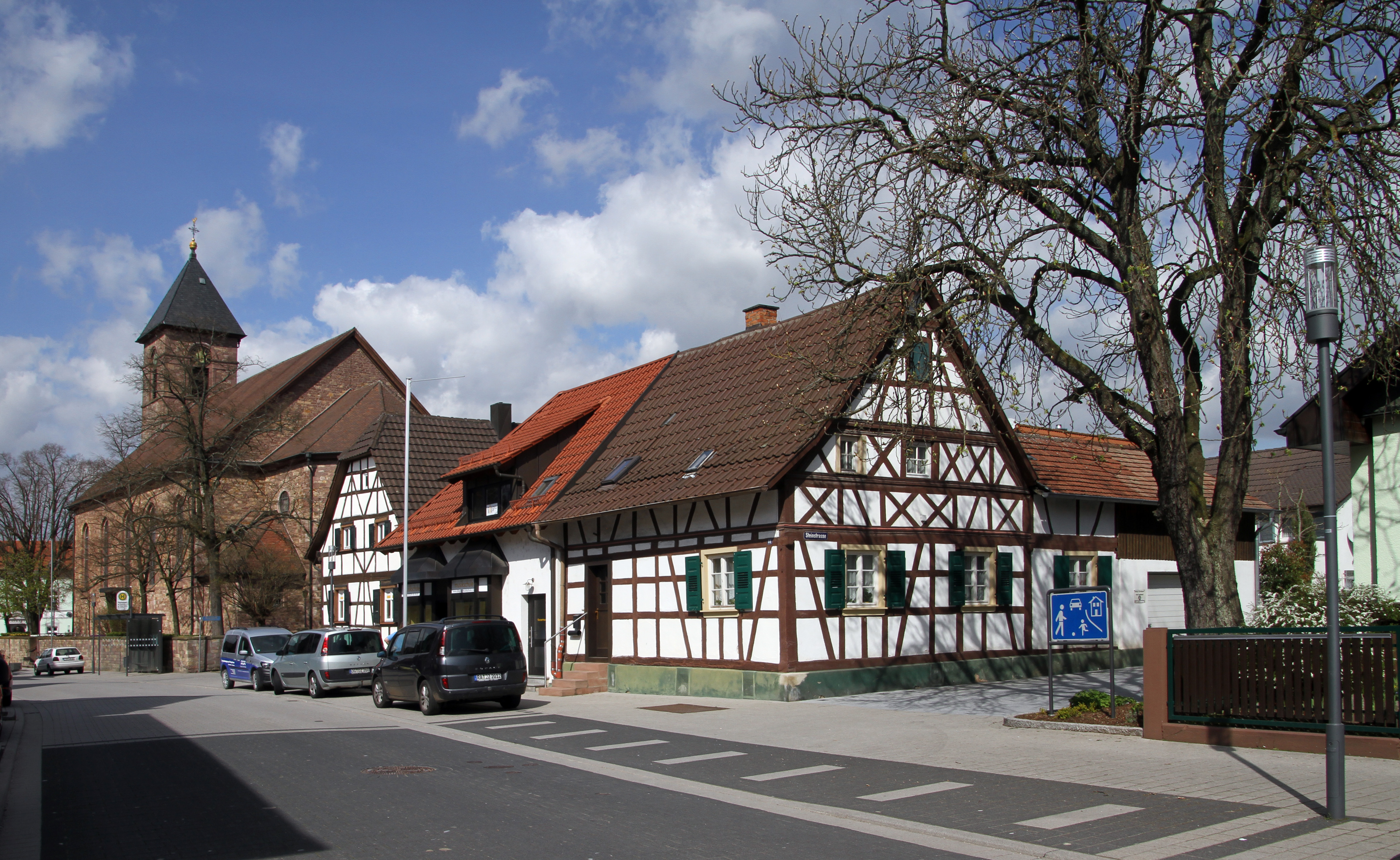 Church of St. Birgitta in Iffezheim.